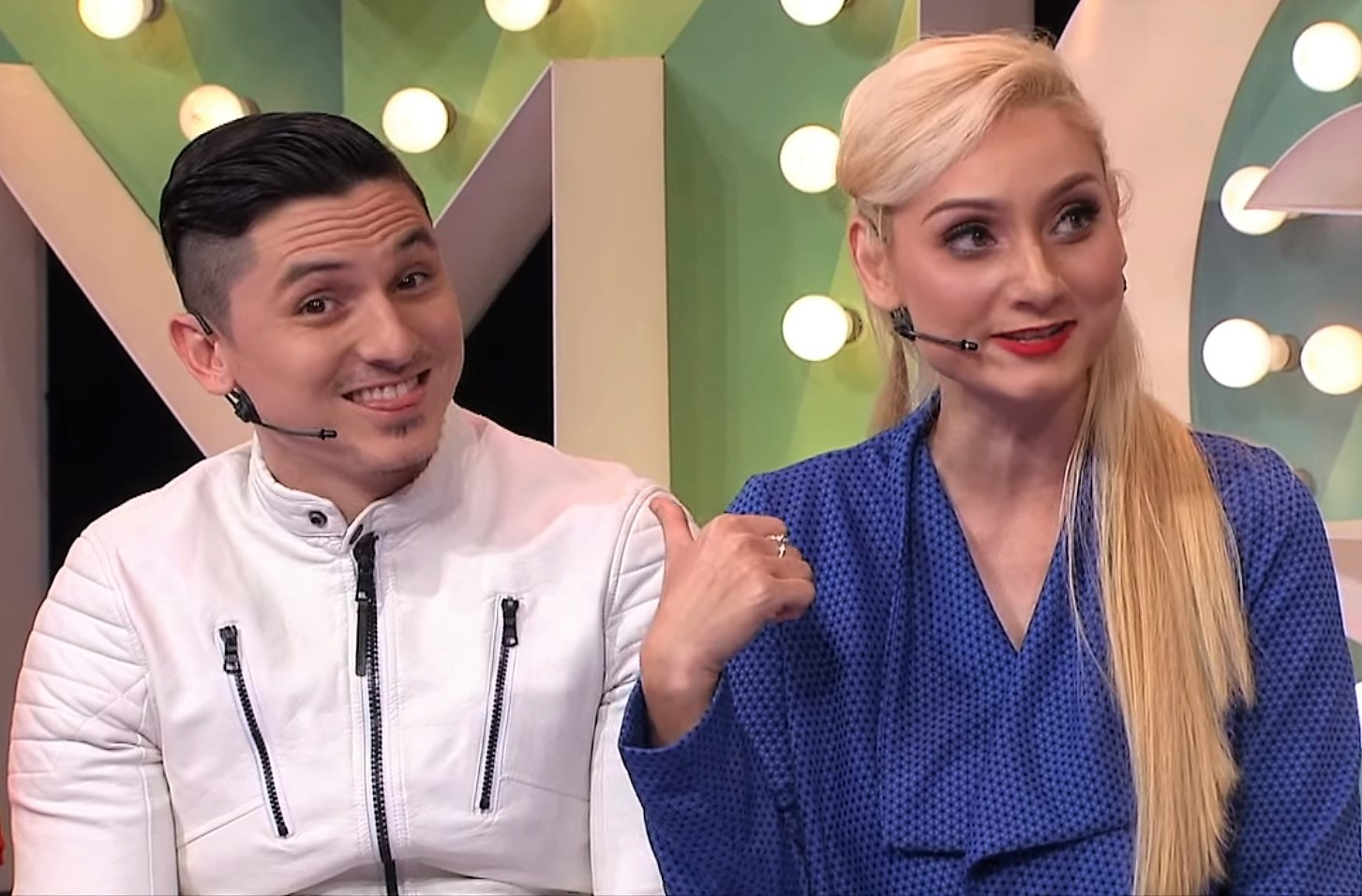 Malay actors Sasha Saidin, Zain Saidin & Carmen Soo of "Oh My English!" interviewed on MeleTOP, episode 159, 17.11.2015